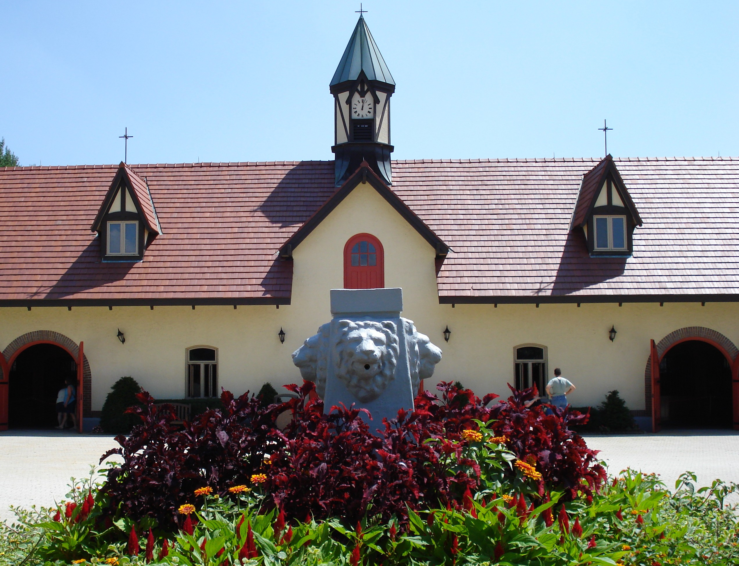 Grant’s Farm Bauernhof, Carriage House and Stables